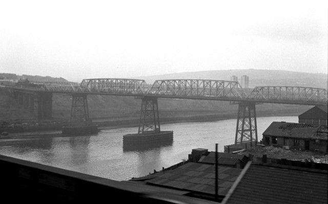 The second Redheugh Road Bridge